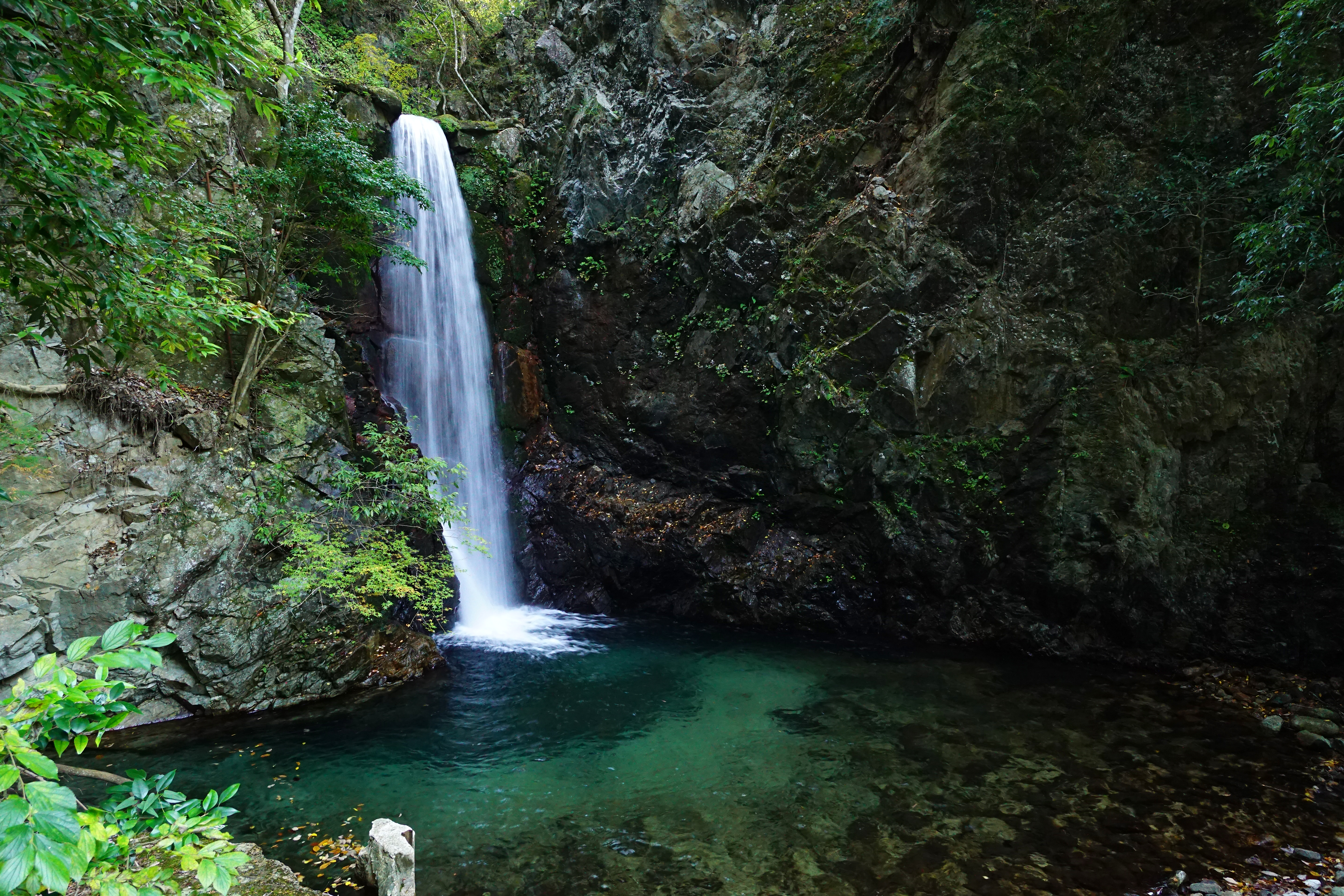 Tudumi-ga-taki Park in Arima onsen, Kobe, Hyogo prefecture, Japan